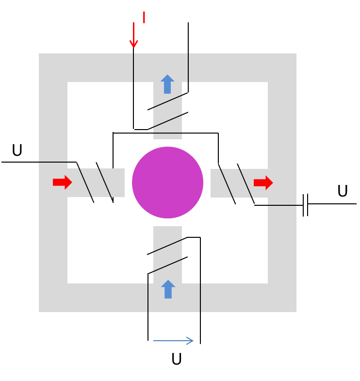 Principle of the induction cup protective relay